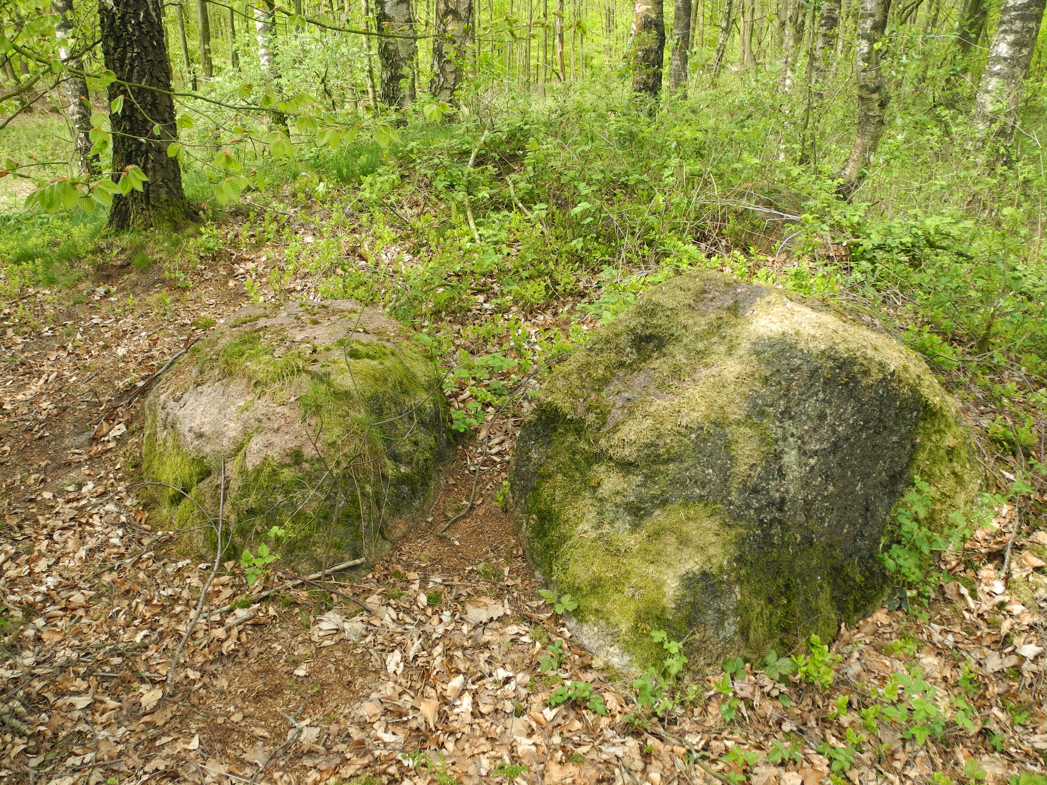 Megalithic tomb "Fuhrenkamp 2" (district Cloppenburg, Lower Saxony, Germany).